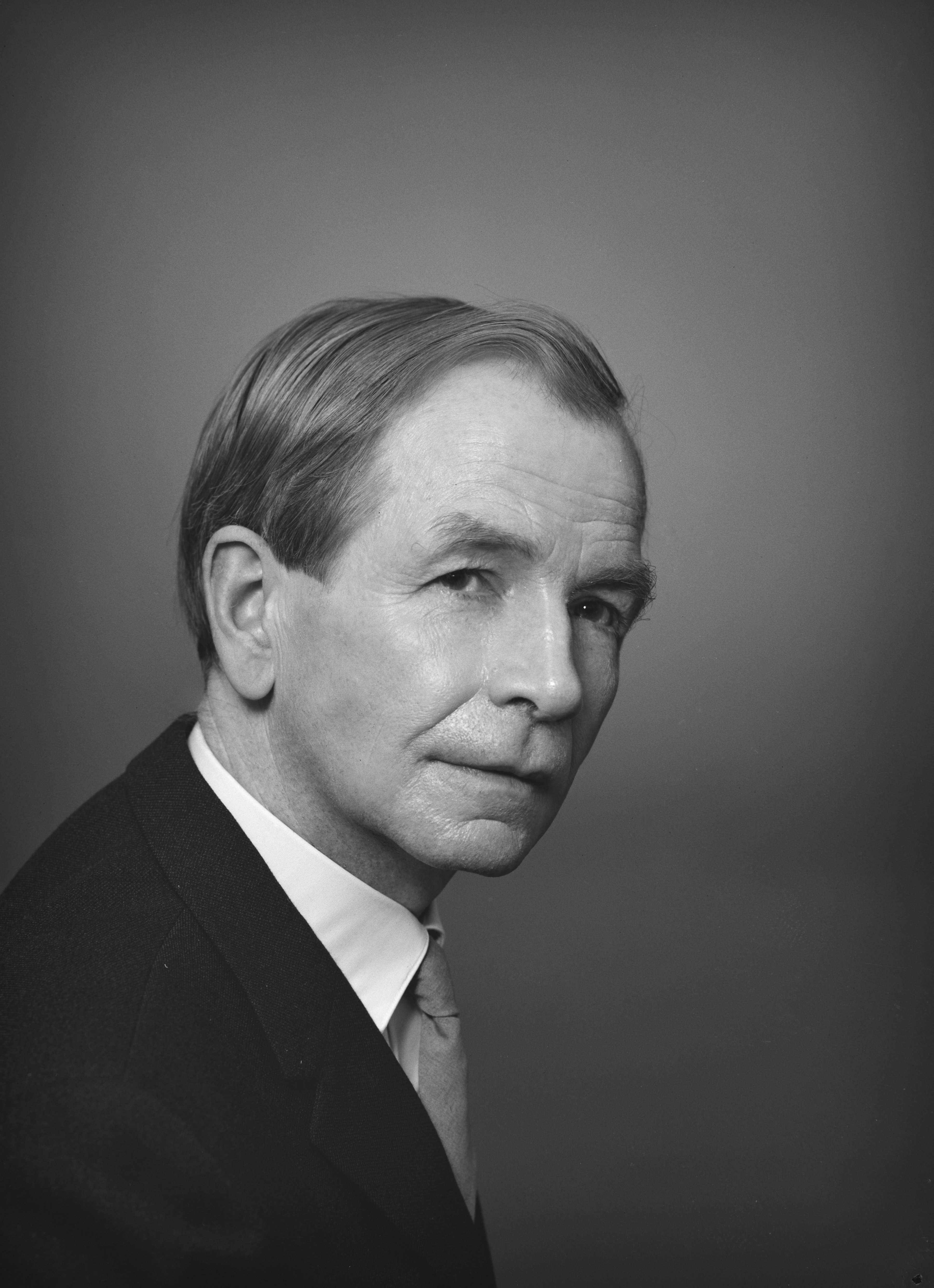 Photograph of the Finnish composer and saxophone player Juhani Kervanto alias Josef Kaartinen (1905–1992).